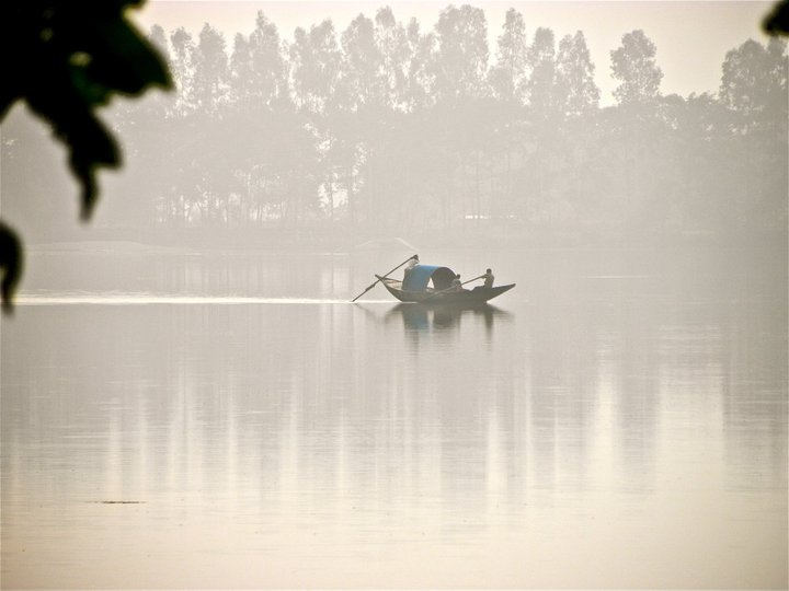 Fishermen catching fish in Kaldighi in a winter morning. The photo was shot in December 2010 by Mrinmoy Saha.